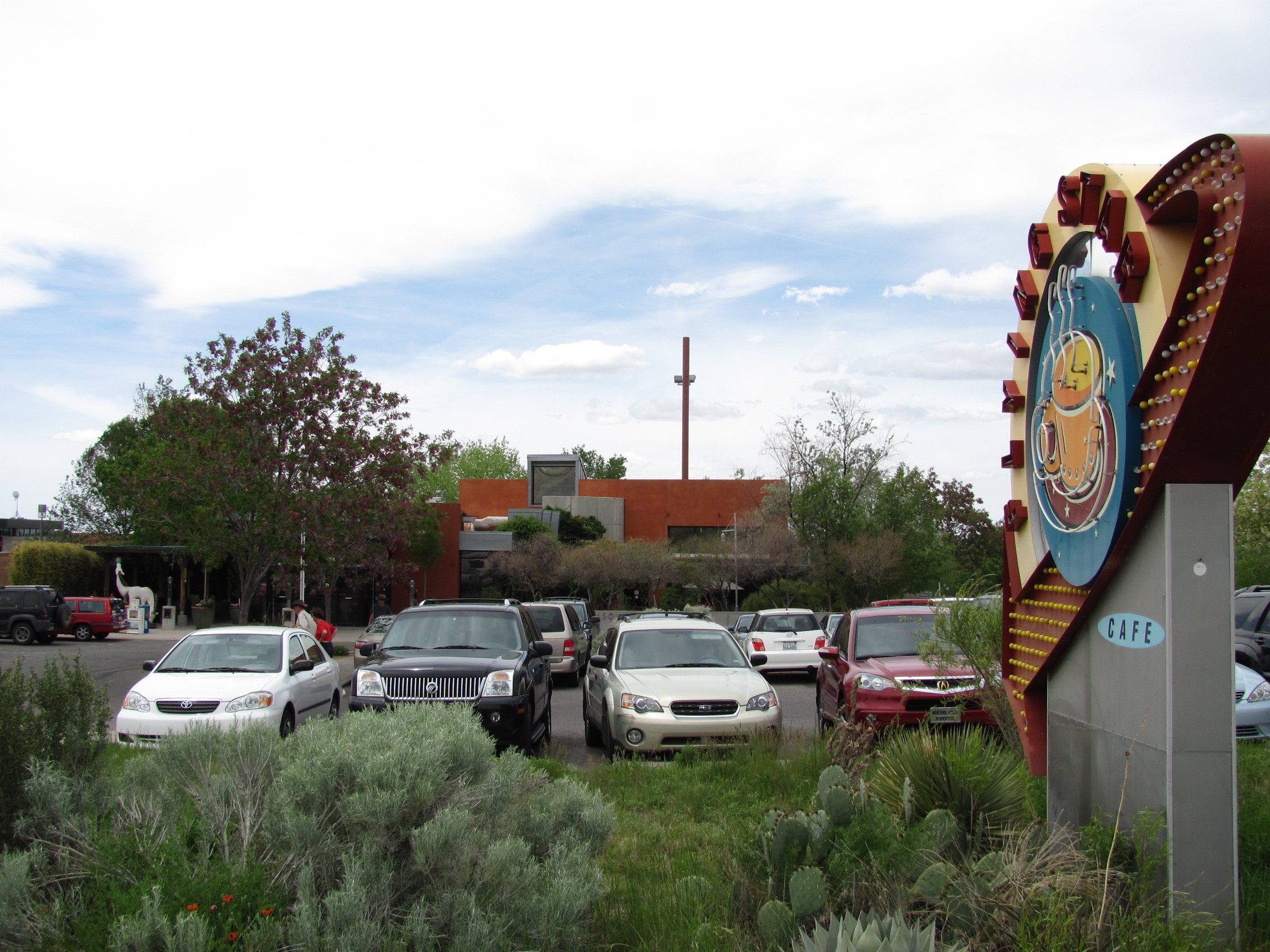 Flying Star Cafe on Juan Tabo Boulevard, Albuquerque New Mexico